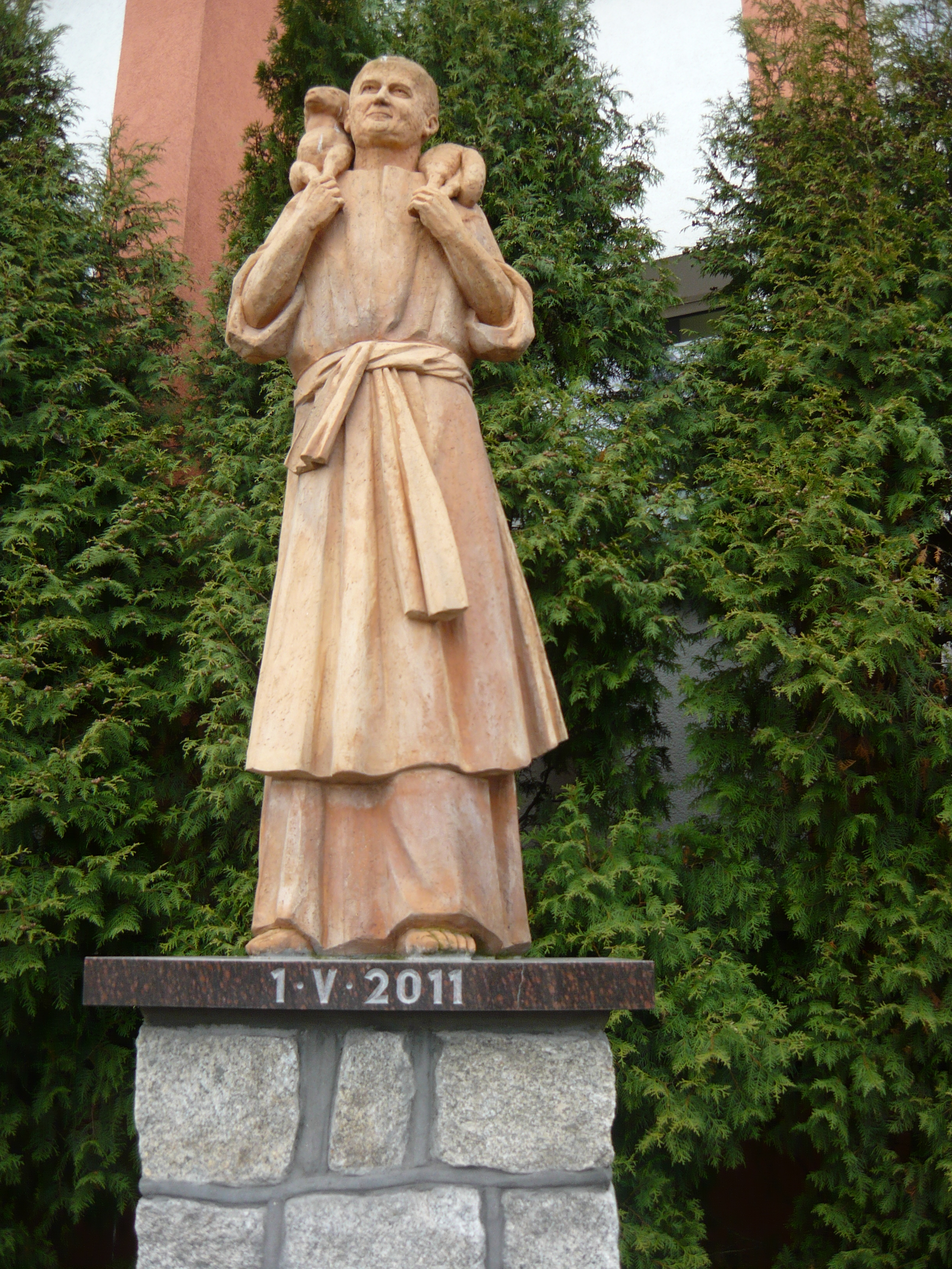 Monument of Good Shepherd by the Saintest Savior Church in Włocławek, created in 1997 year by Antoni Bisaga. Face of Shepherd is similar to face of Pope John Paul II. Statue was renovated in 2011 year in occasion of beatification of pope. Then have also added date 1st May of 2011 year (date of beatification) on postument. This fact stressed that similar to John Paul II was intended.